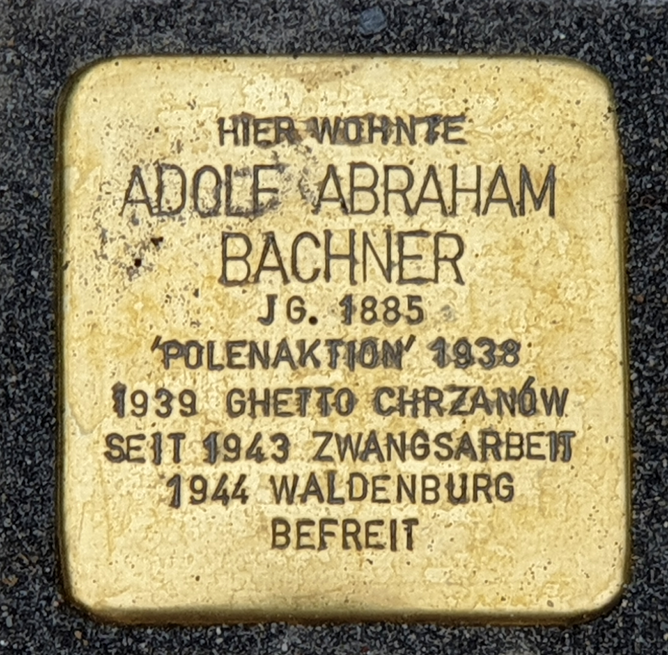 "Stolperstein" (stumbling block), Adolf Abraham Bachner, Berolinastraße 32, Berlin-Mitte, Germany